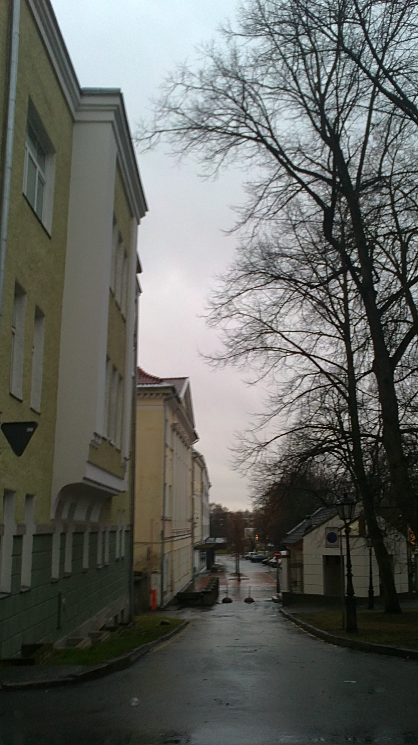 Poe street in Tartu